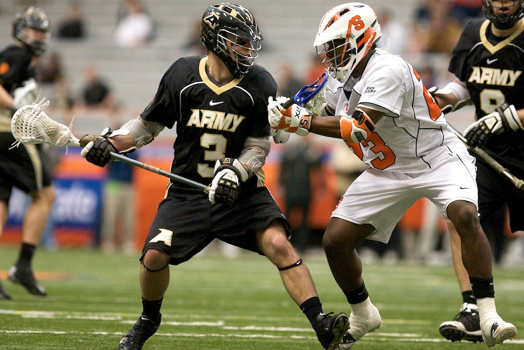 Army's Brandon Butler (#3) goes up against Syracuse's Jovan Miller (#23) in this regular season game.